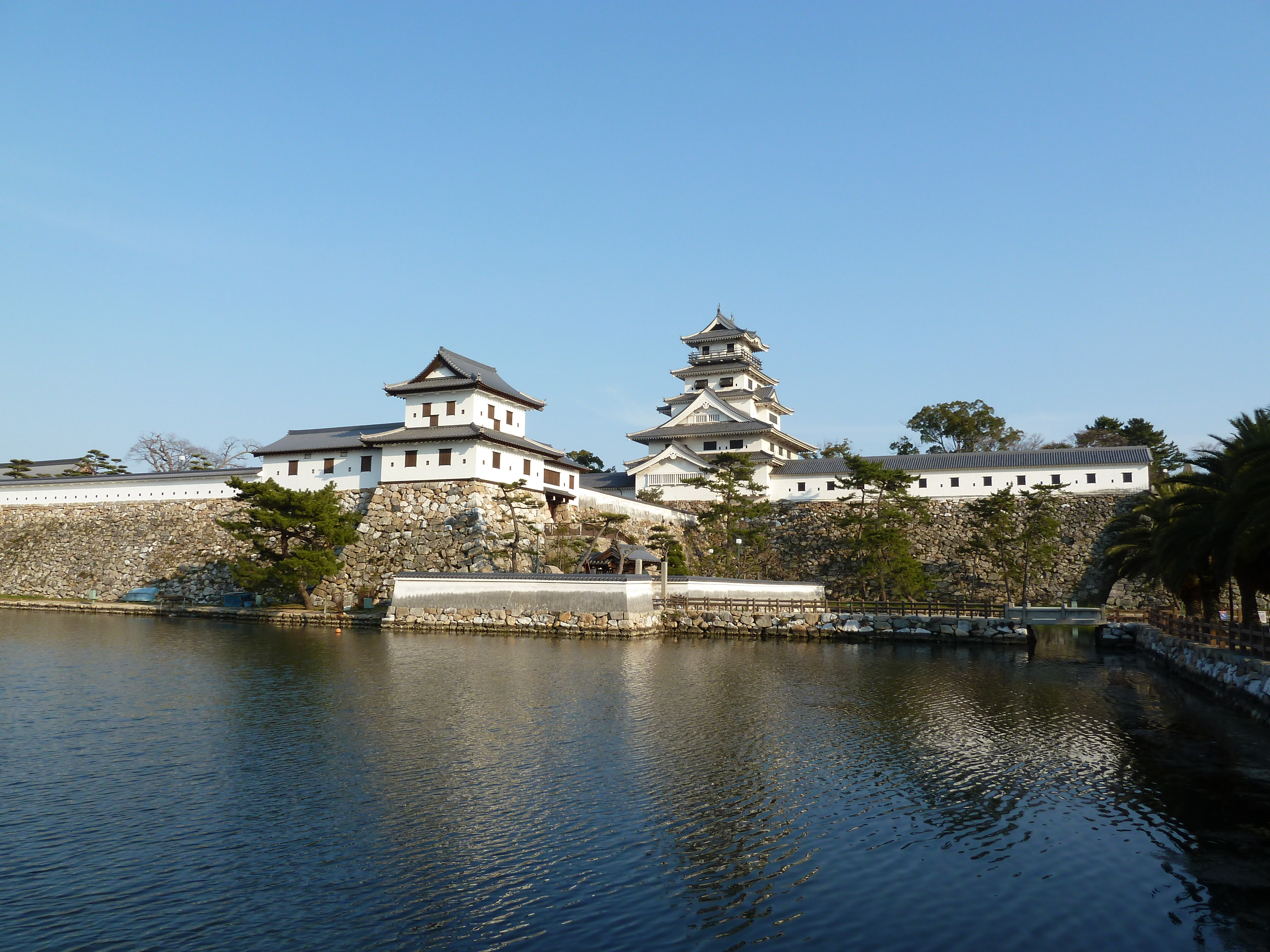 今治城